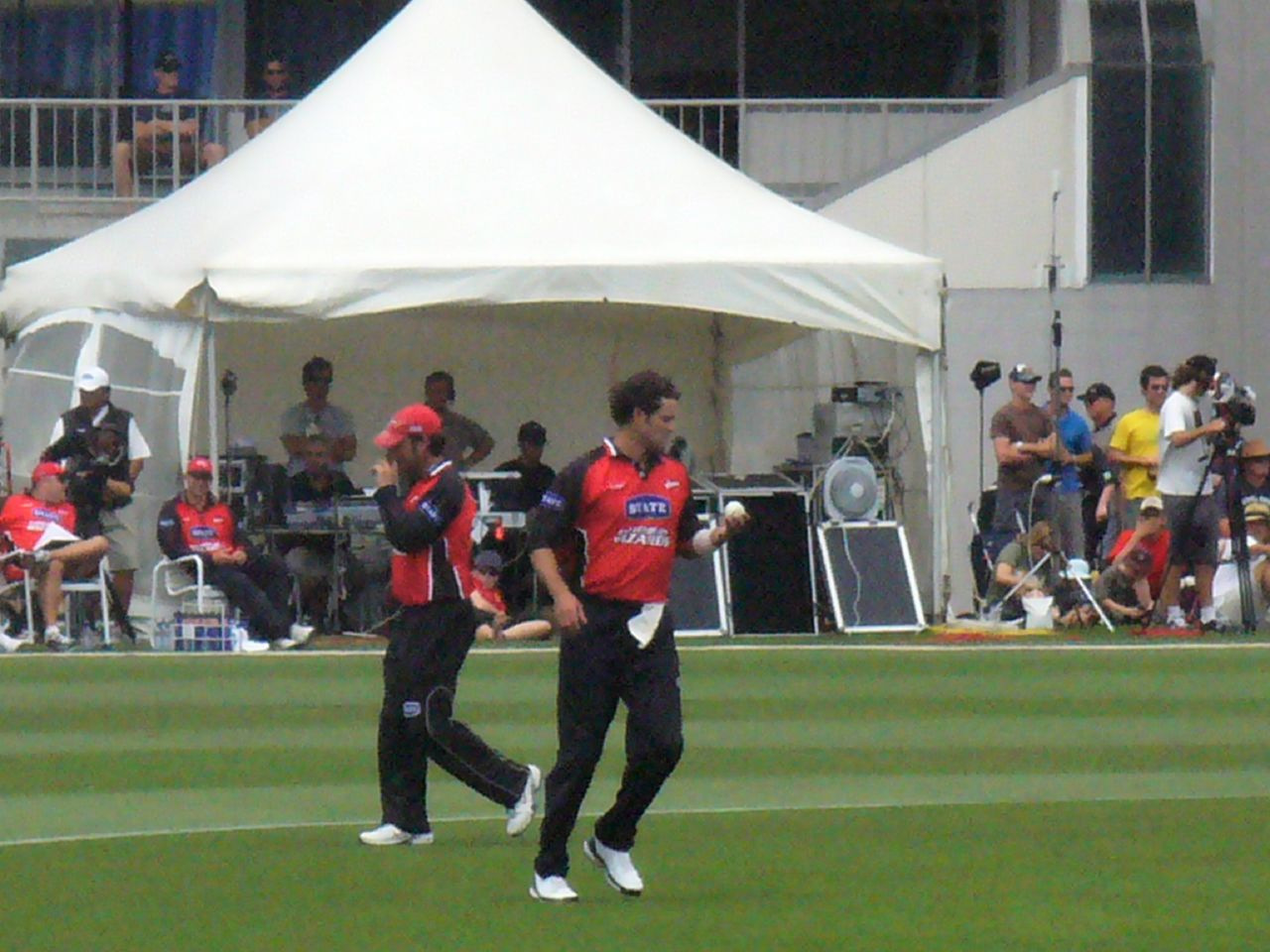 "The great Kiwi all-rounder [Chris Cairns], just retired from the international game, took the first Auckland wicket with this very ball he was just about to bowl."